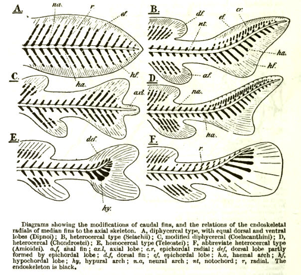 Fish shapes and fin structures